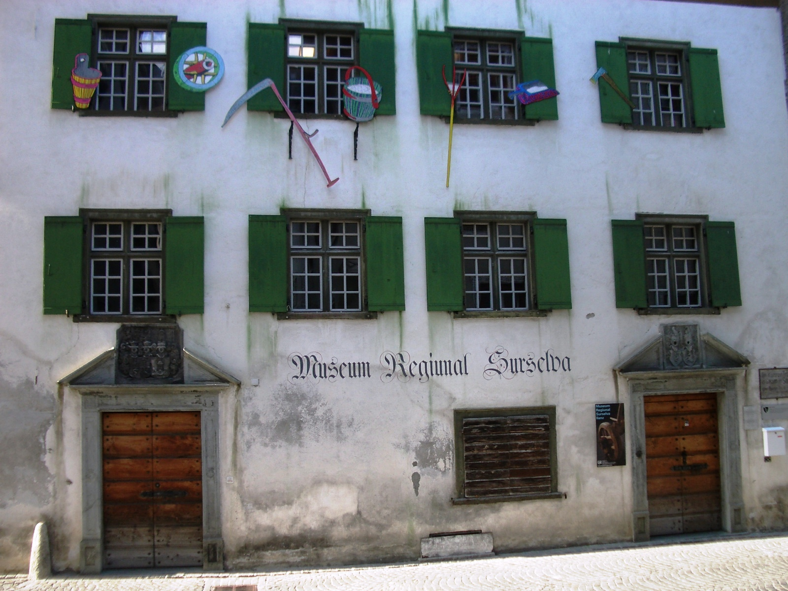 Ilanz GR, Switzerland